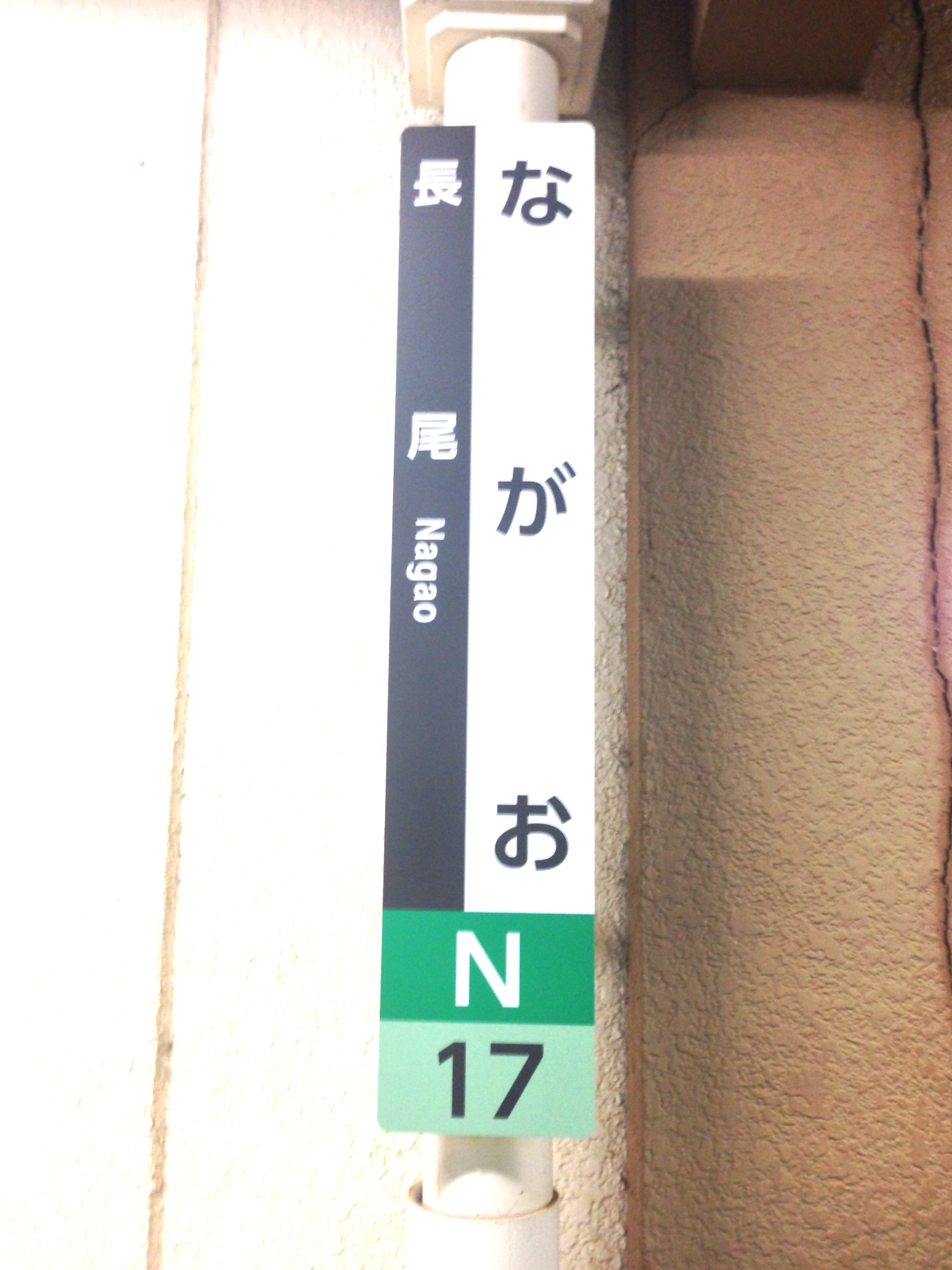 Kotoden Nagao Station Station Name Plate (vertical type).